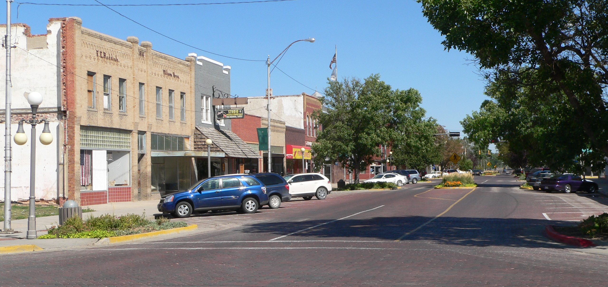 Downtown Alliance, Nebraska: looking north up Box Butte Avenue from 2nd Street.